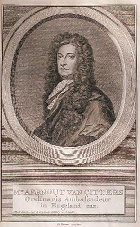 Portrait of Aernout van Citters (1633-1696). Engraving. 180 × 110 mm.